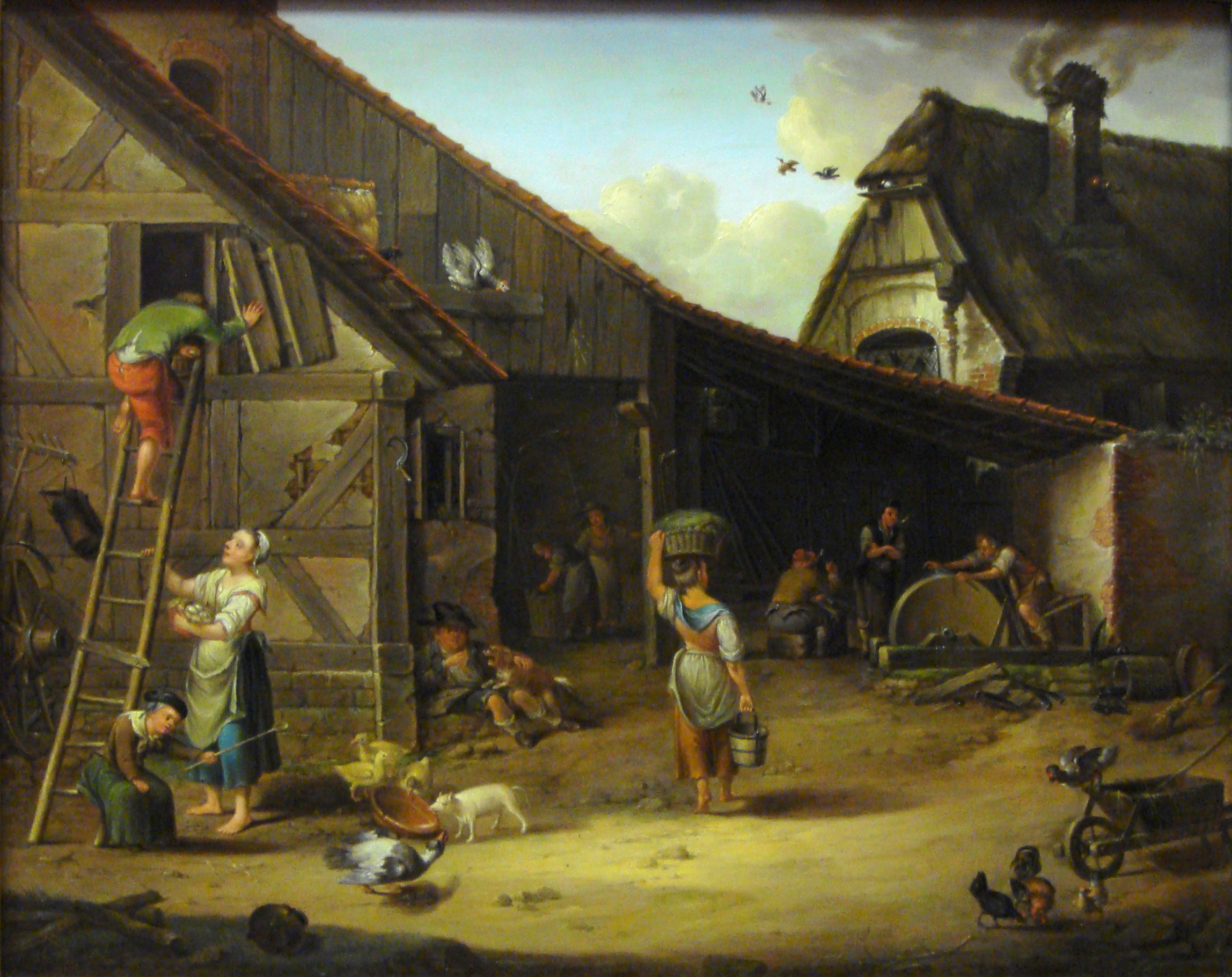 A Farm